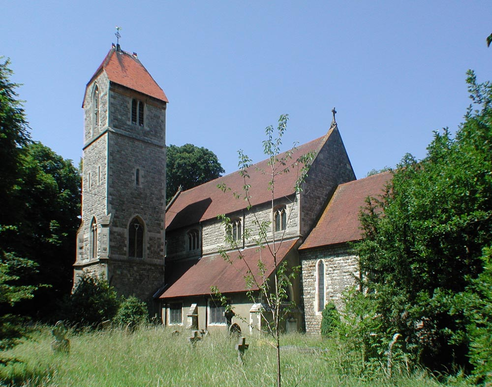 All Saints' parish church, Uxbridge Road, Harrow Weald, Middlesex, seen from the southeast